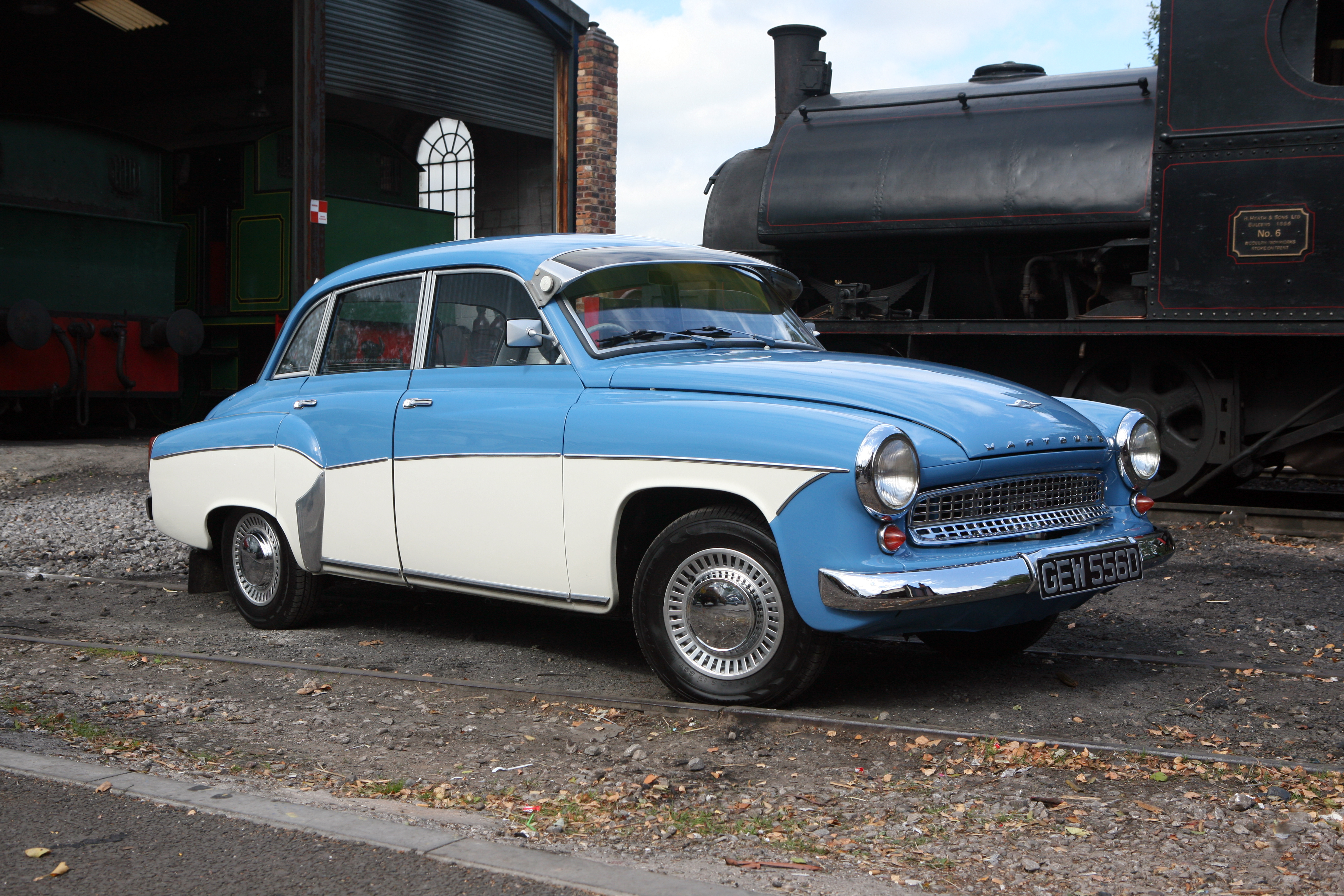 A very rare Right Hand Drive Wartburg 312